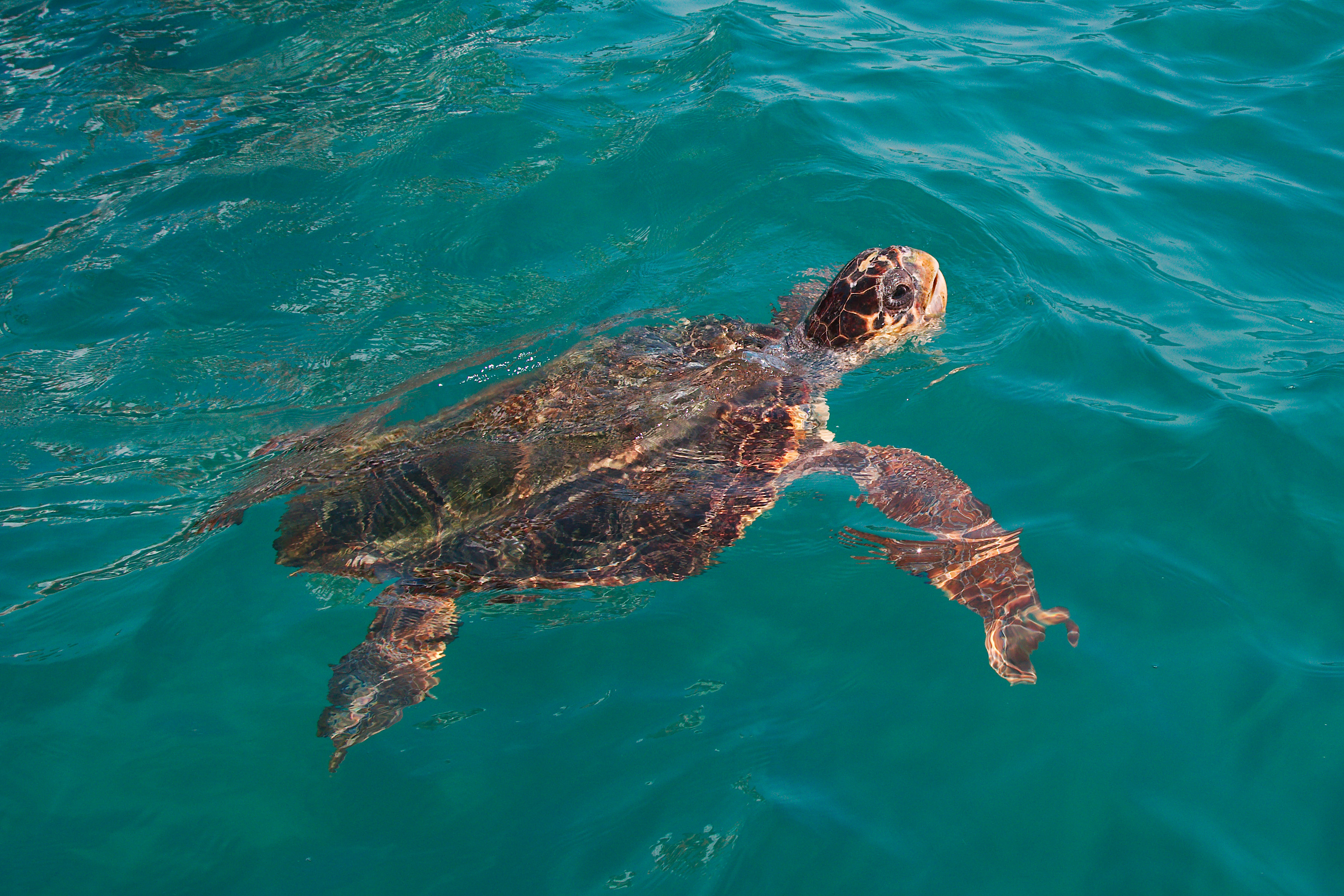 Loggerhead sea turtle in the bay of Laganas.